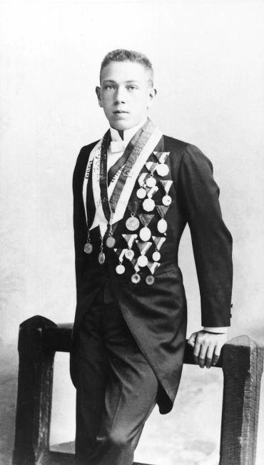 Hajós Alfréd, the first hungarian olympic champion